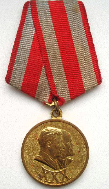 Obverse of the Jubilee Medal "30 Years of the Armed Forces of the USSR".